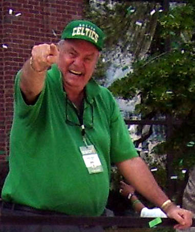 Tom Heinsohn Author: John W. Harmon Source: Boston Celtics Parade June 19, 2008